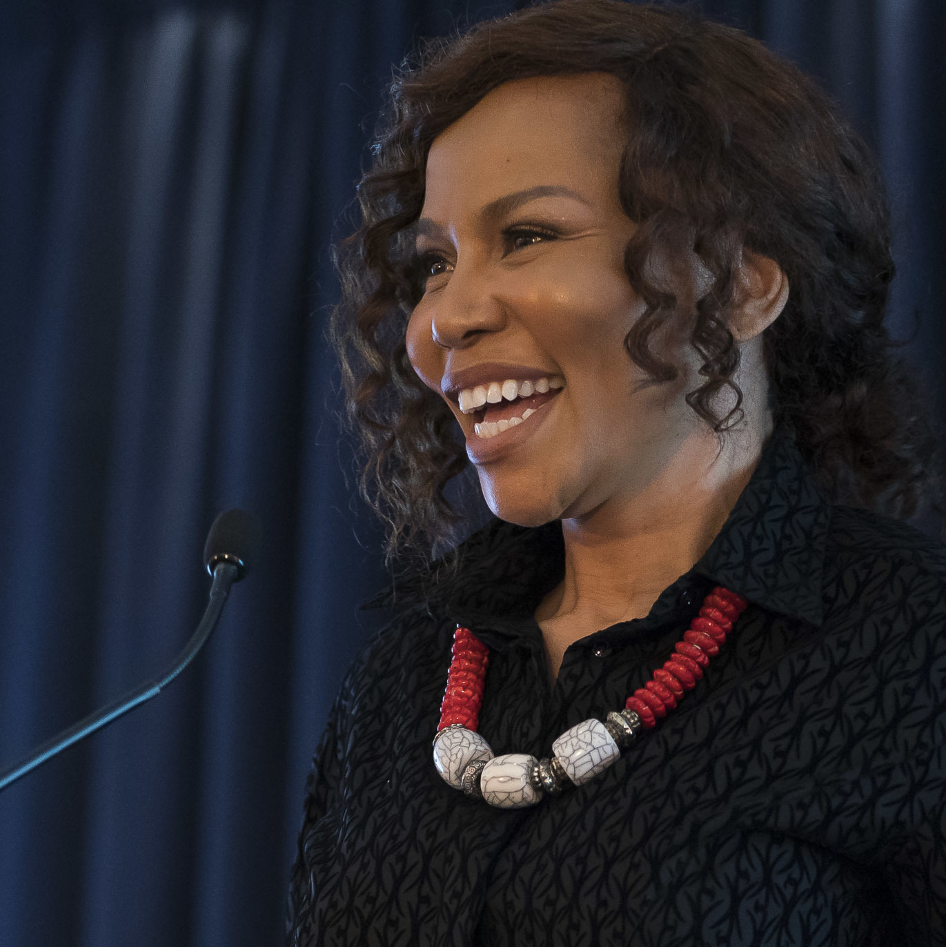 Dr. Precious Moloi-Motsepe speaks at the 20th Anniversary Schwab Foundation Gala Dinner on September 23, 2018 in New York, NY USA. Copyright by World Economic Forum / Ben Hider